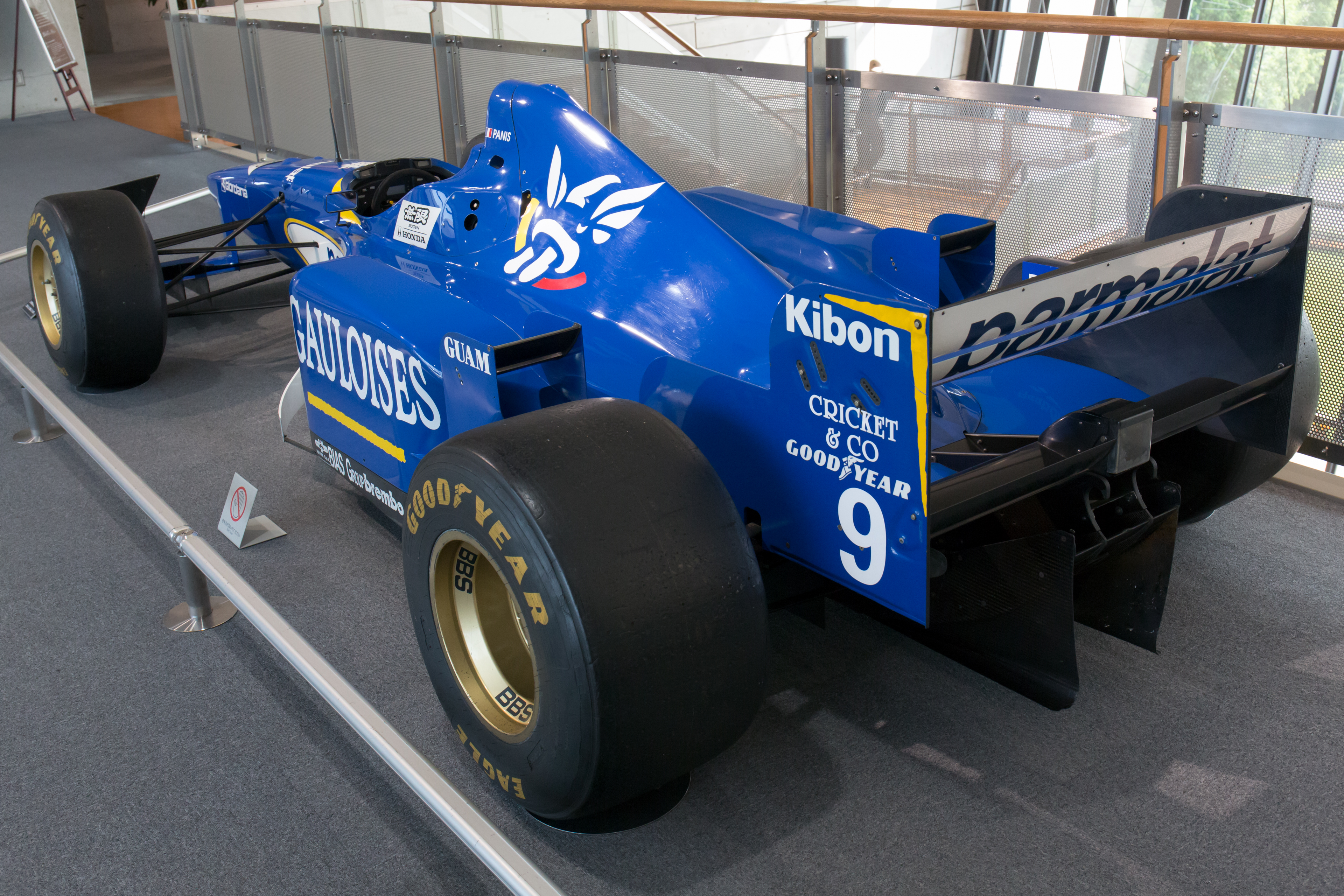 1996 Ligier JS43 (Olivier Panis)